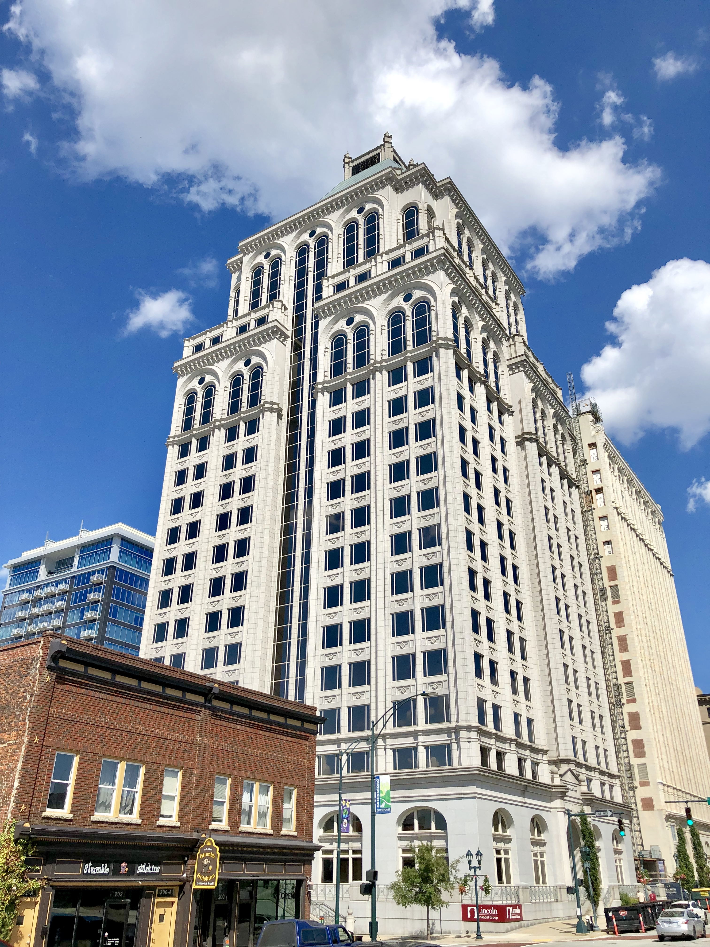 This is the Lincoln Financial Building, located adjacent to the Jefferson Standard Building on Market Street in the downtown business district of Greensboro, North Carolina. It was constructed in 1990 as an addition to the Jefferson Standard Building.